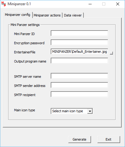 A screenshot of the GPL software known as MiniPanzer showing the configuration settings that are